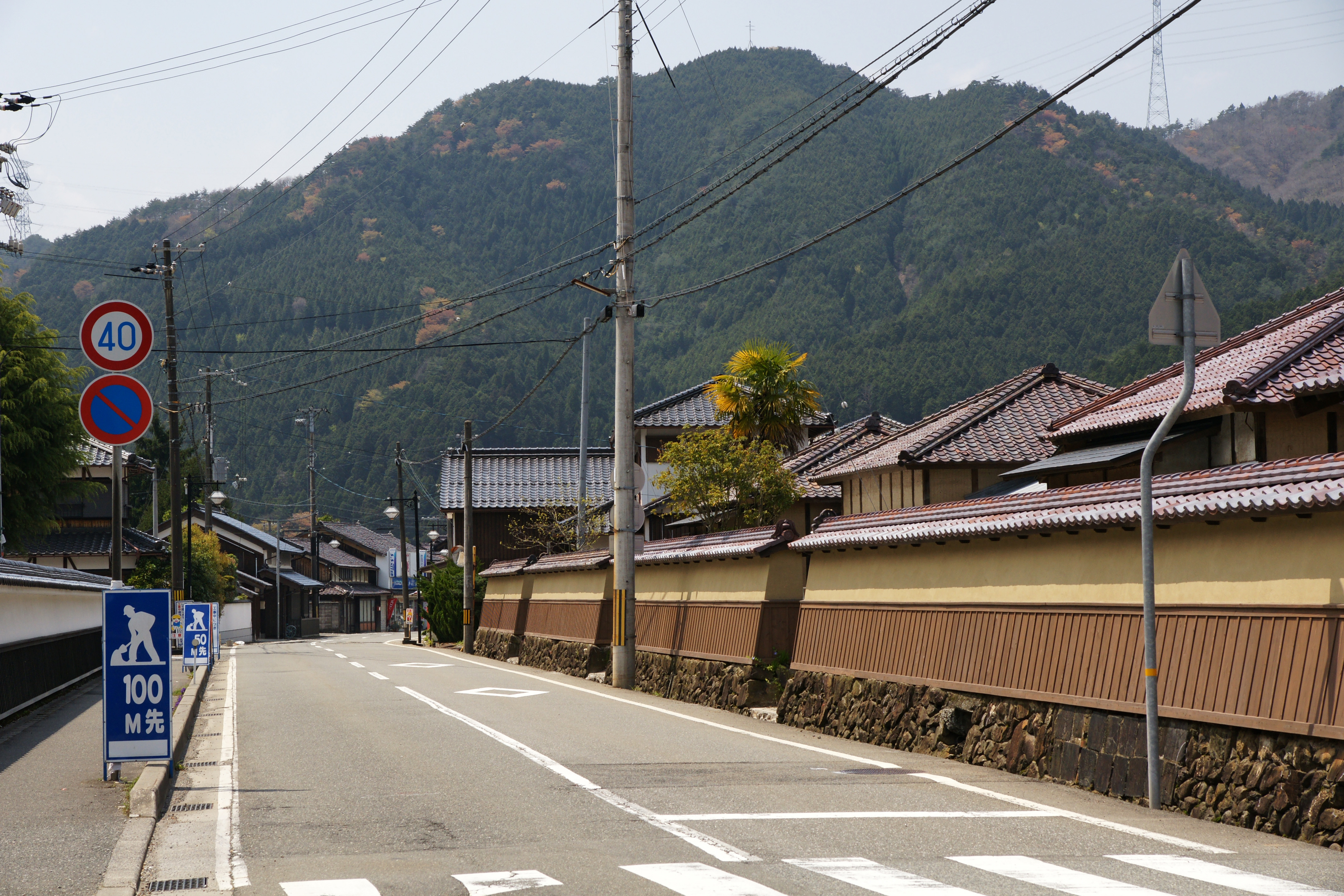 The Silver Mining Road at Kuchiganaya, Ikuno, Asago, Hyogo prefecture, Japan.